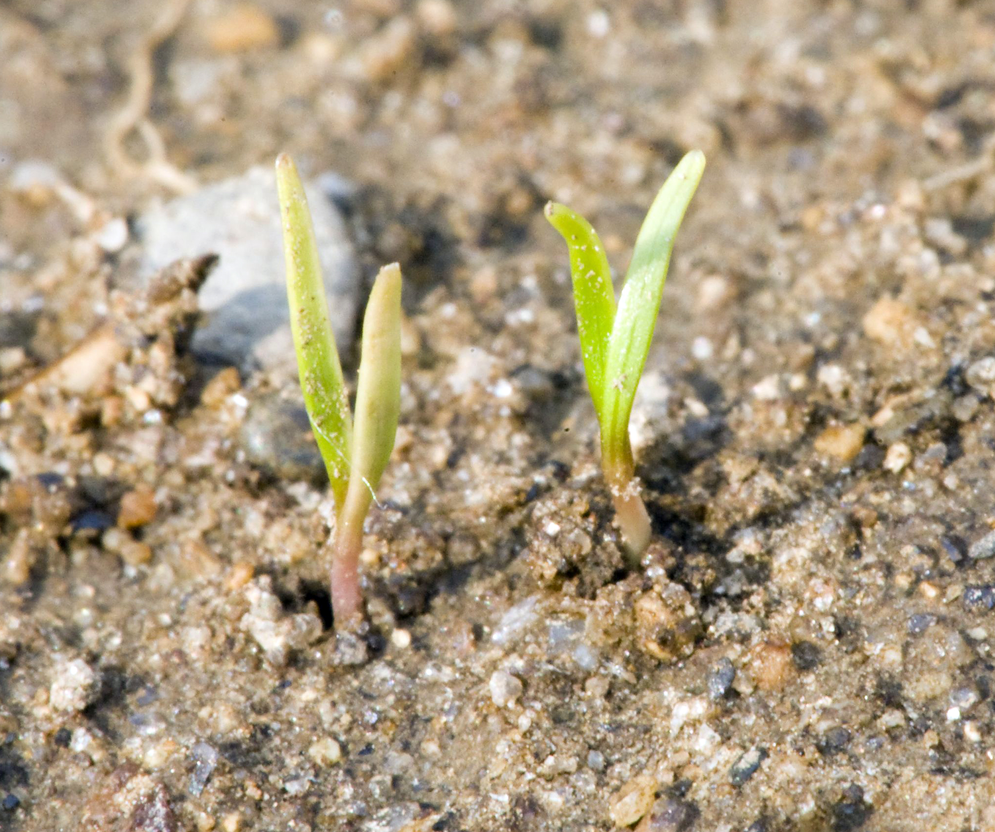 The first planting of carrots has germinated and emerged. They're about 1/4 inch high in this picture. We don't plant early carrots because (1) they're a lot of work to weed and (2) they don't really taste good until we get some cold weather in the fall.